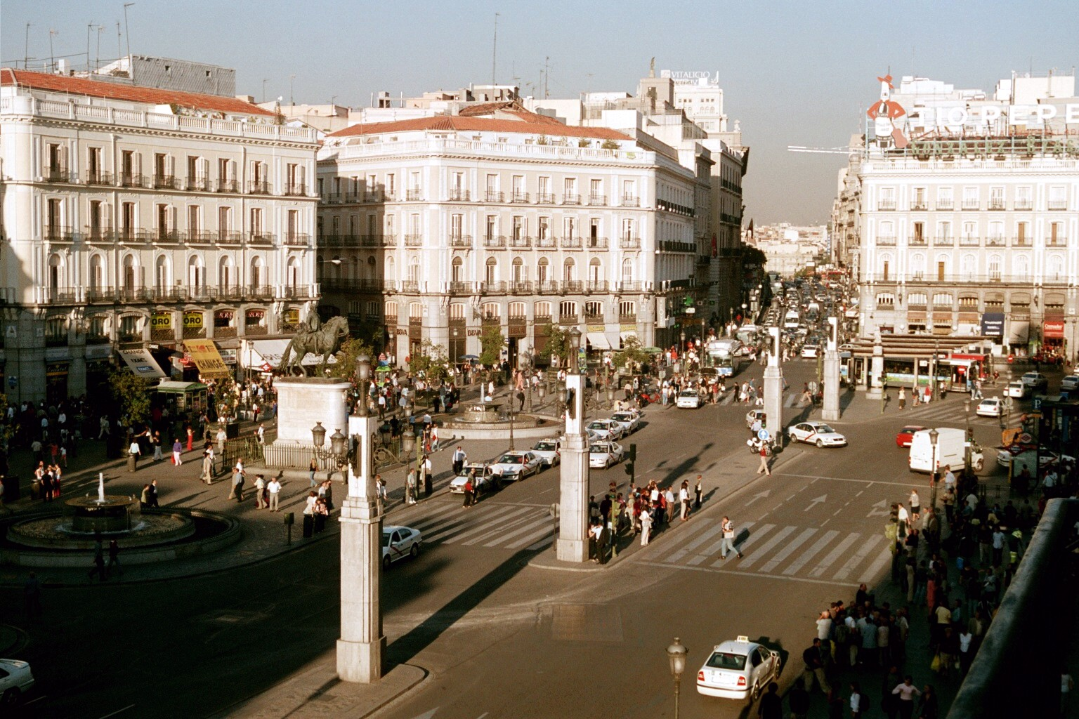 Puerta del Sol (square) in Madrid (Spain). Image taken from Casas del Cordero, a building at 1st Calle Mayor (street). In the background, Calle de Alcalá (street).